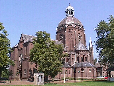 Saint Bavo church in Raamsdonk, North Brabant, Netherlands